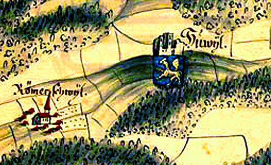 Huwyl Castle - Huwyl Burg Hans Conrad Gyger 1665-1669 Römerswyl